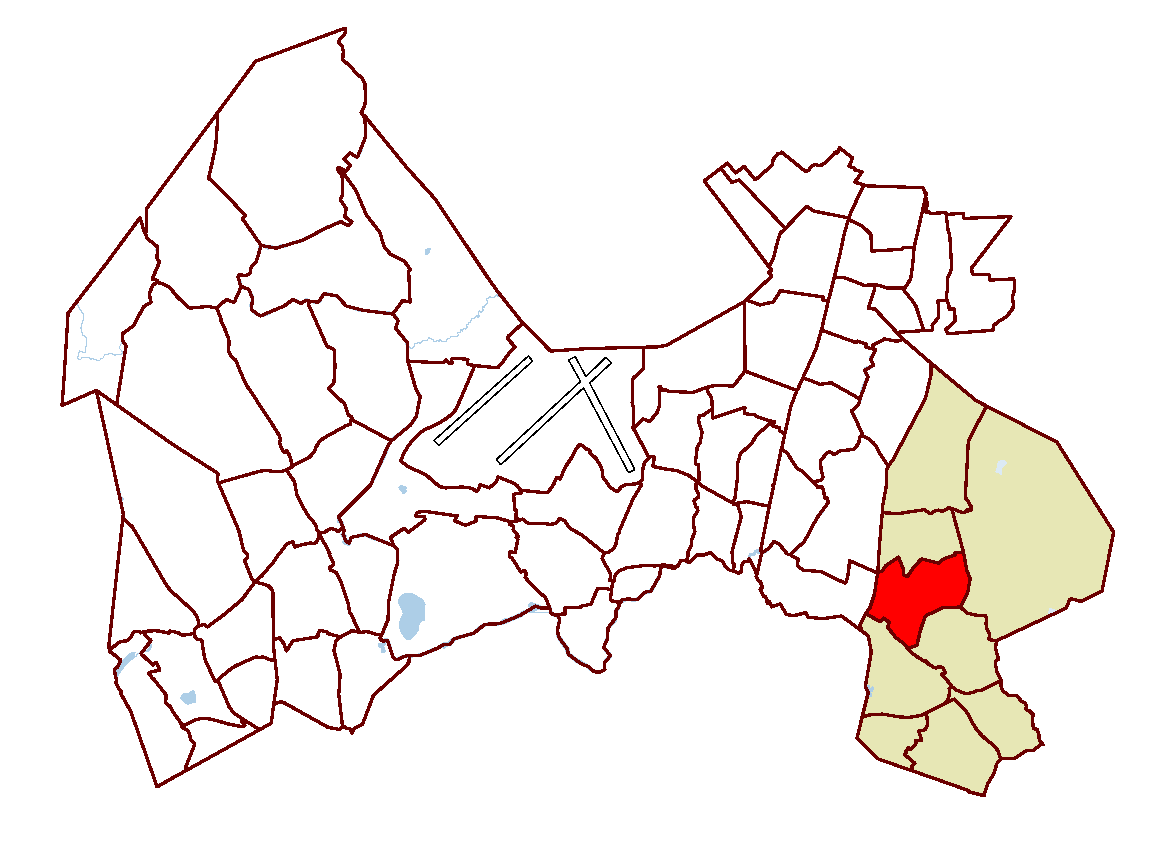 District of Hakunila (marked red), within Hakunila service area (marked light brown) in Vantaa, Finland